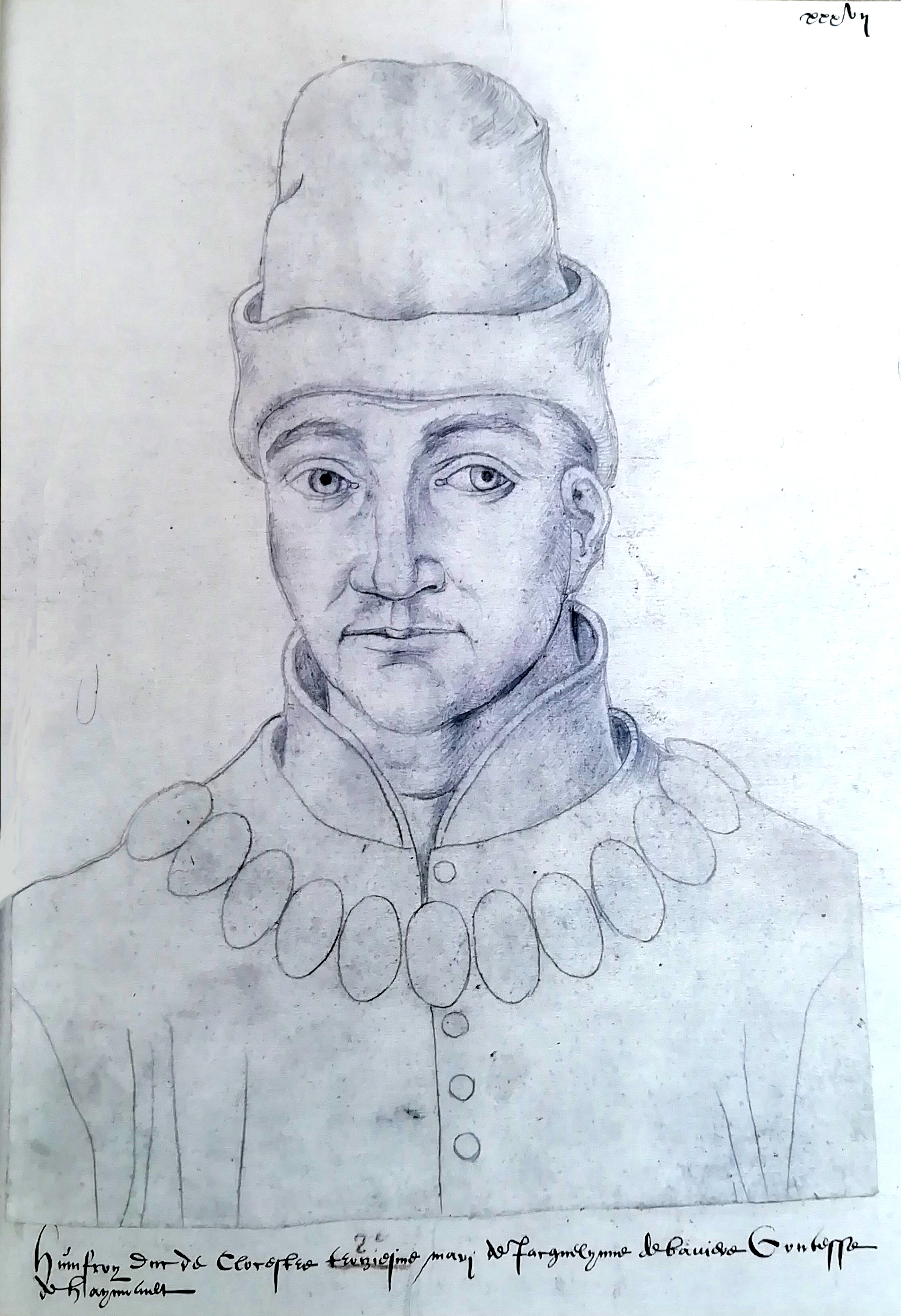 Humphrey, Duke of Gloucester (15th century drawing)